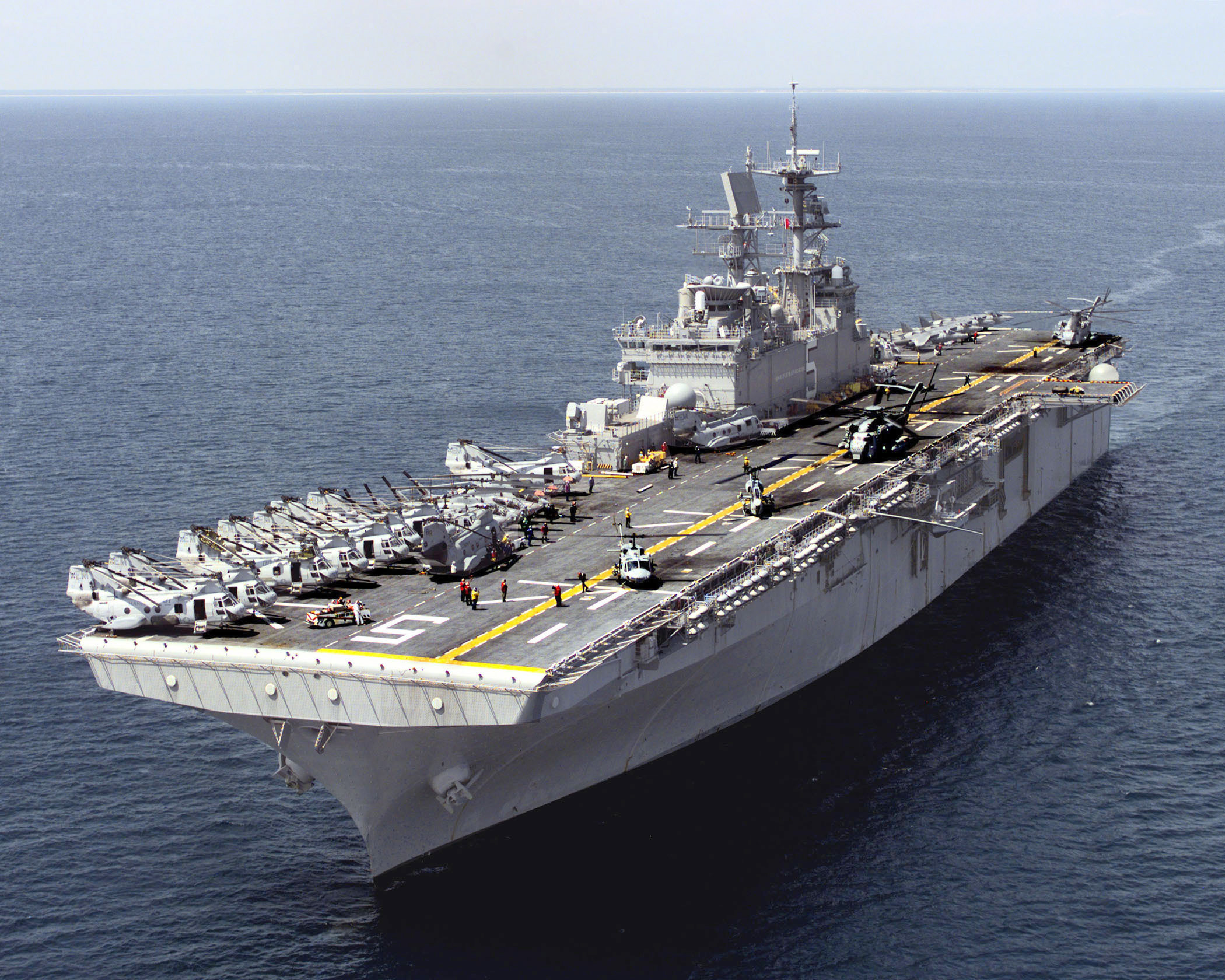 At sea with USS Bataan (LHD-5) Jul. 17, 1999 — The amphibious assault ship Bataan conducts training operations in the Atlantic Ocean in preparation for an upcoming maiden deployment.